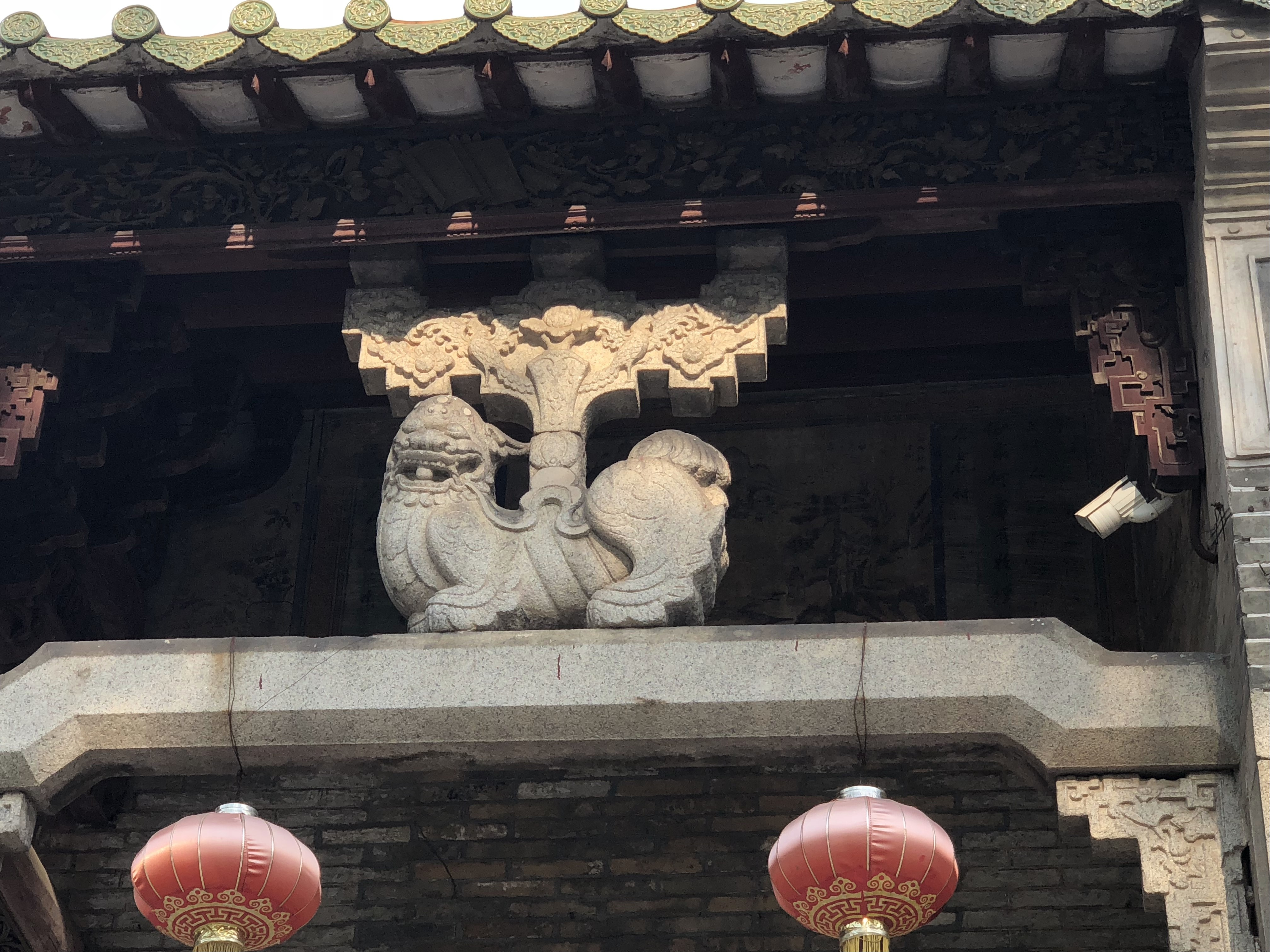 Huang Shi Sanctum 门楼砖雕